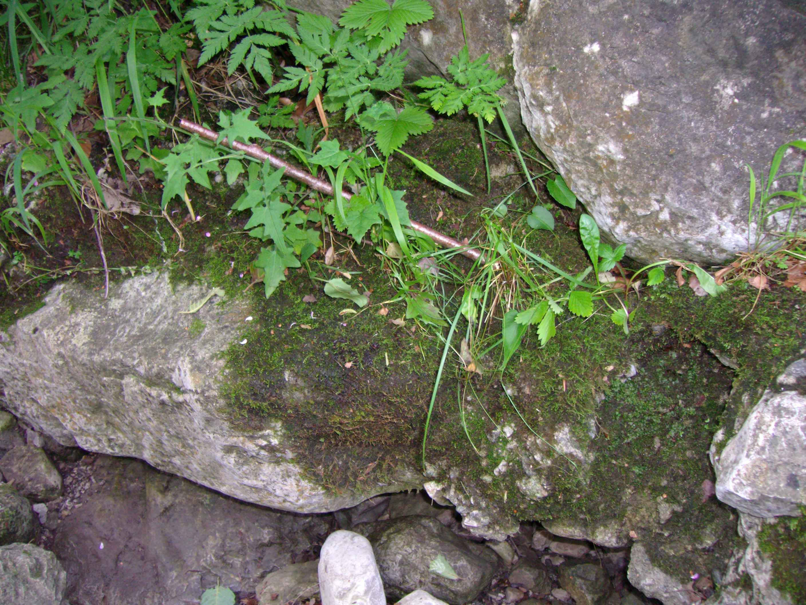 Beginning pedogenesis over a limestone, Lombard alpine foothills.